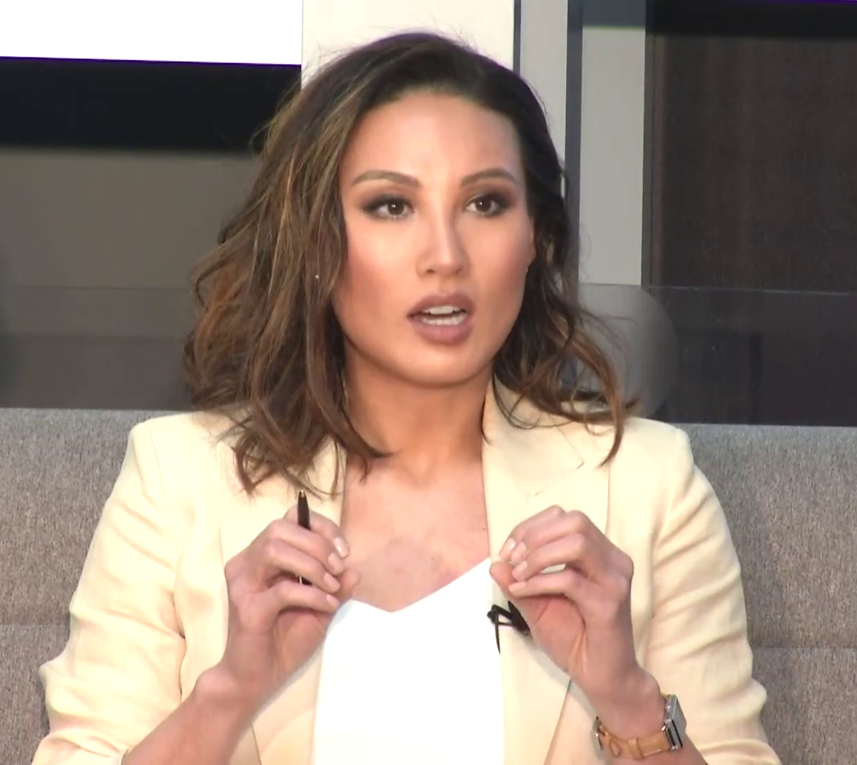 Mina Chang interviewed by New America's Sharon Burke at the New America Future of War Conference 2017 panel "Can We Stop War Before It Starts?"